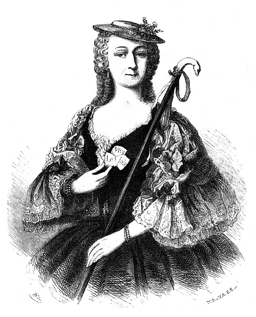 caption: "Louise Dorothee, Herzogin von Gotha."